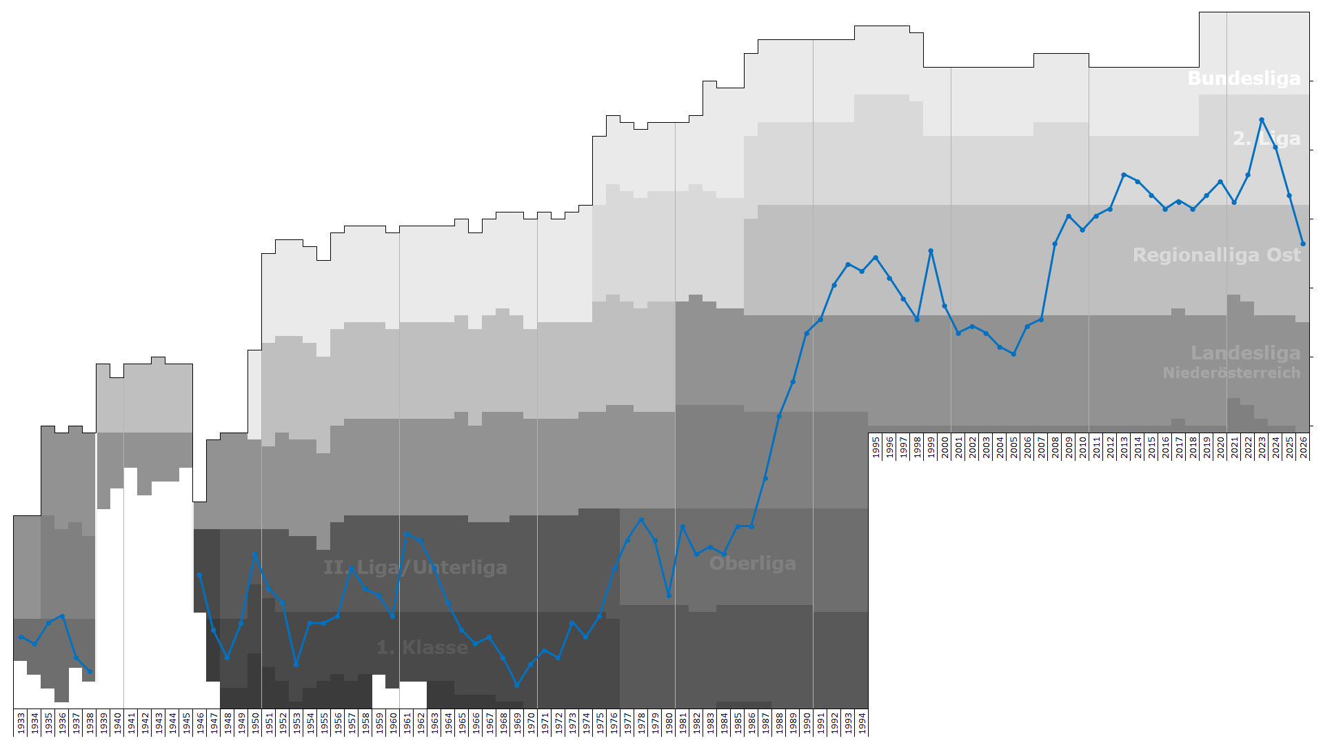 Chart of end-season table positions of SV Horn in the Austrian football league system. Data source: RSSSF, , regiowiki.at, noefv.at, wikipedia